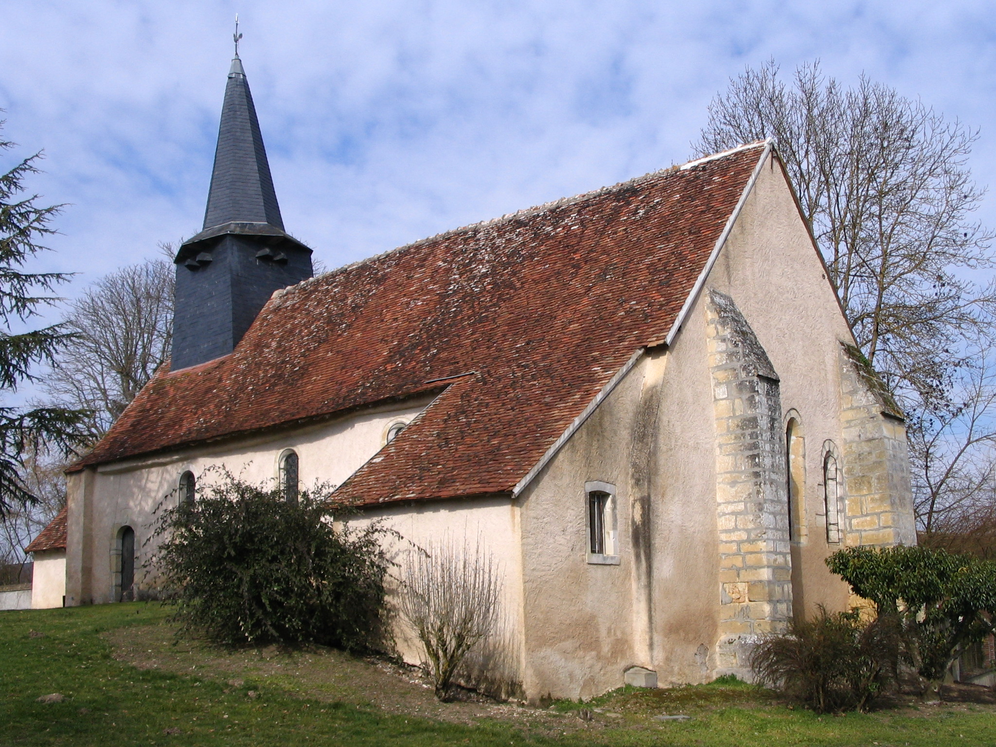 The church of Diou, Indre, France.